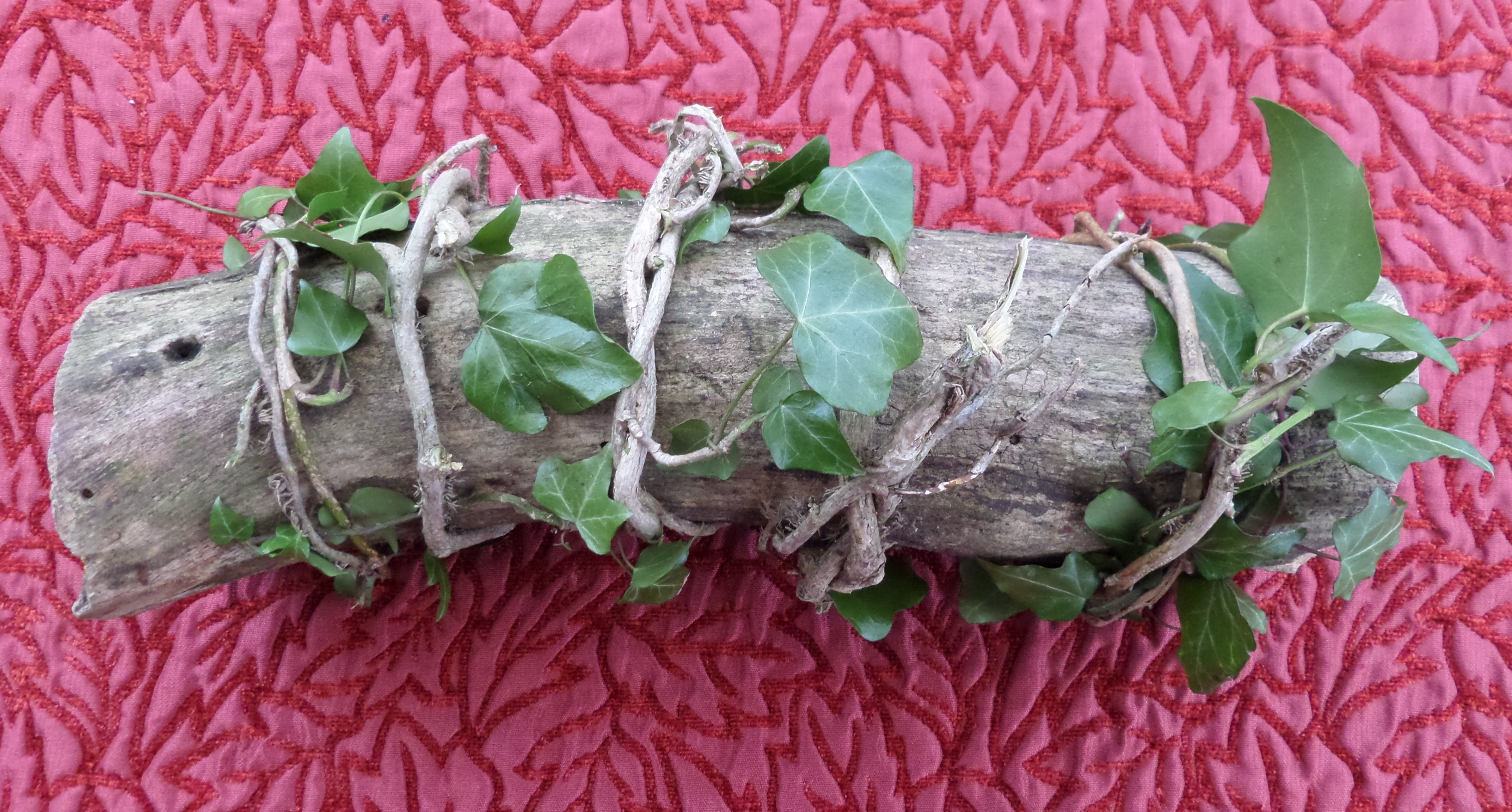 A traditional Yule Log with bands